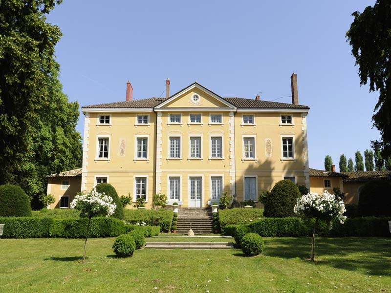 Castle Chavagneux